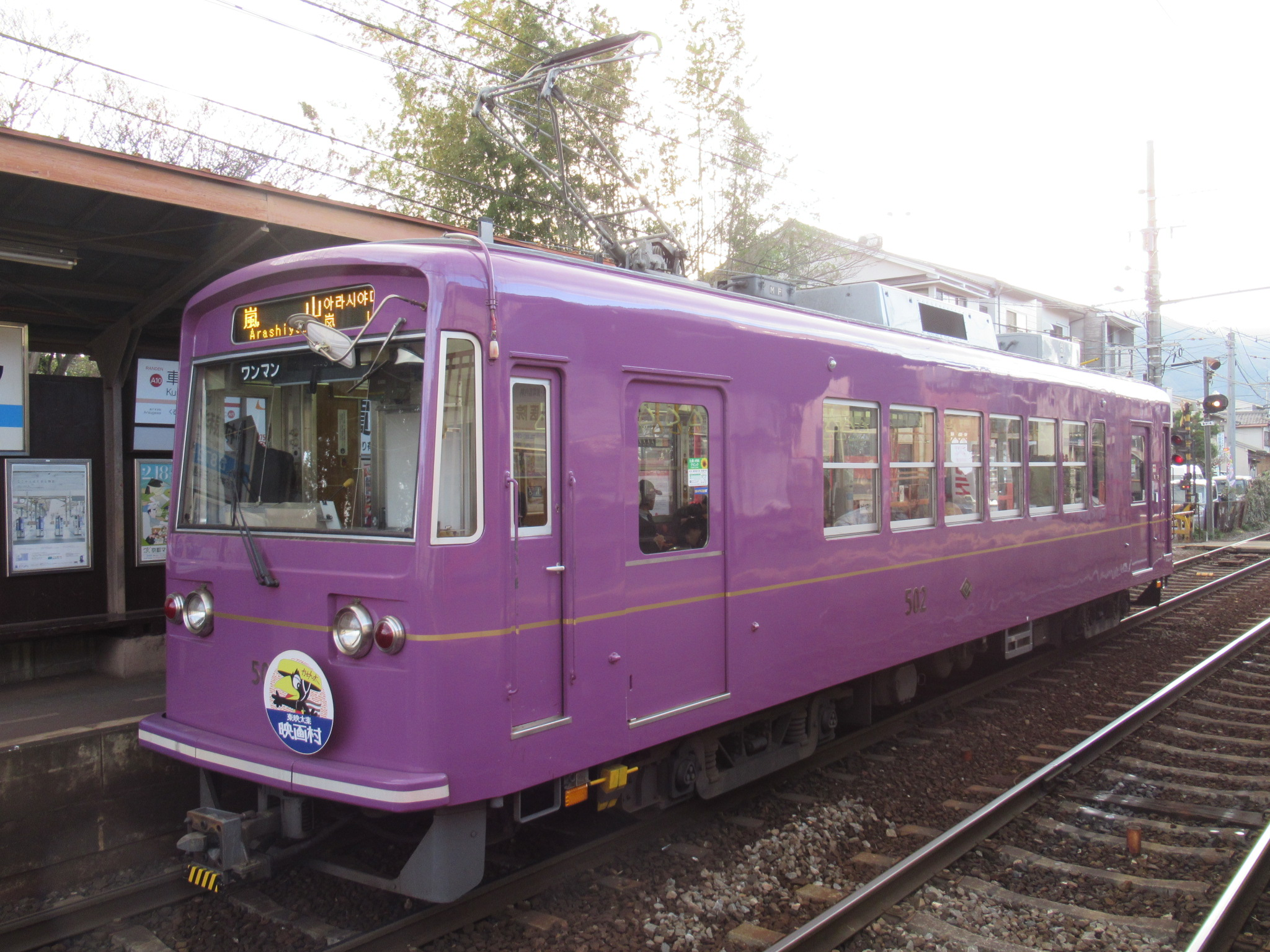 Keifuku Mobo 502 at Kurumazaki-Jinja Station in Kyoto, Japan